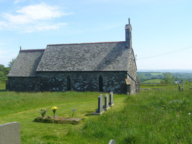 St. Colman's Church Rebuilt at the end of the 19th century, allegedly for the wedding of a local farmer.